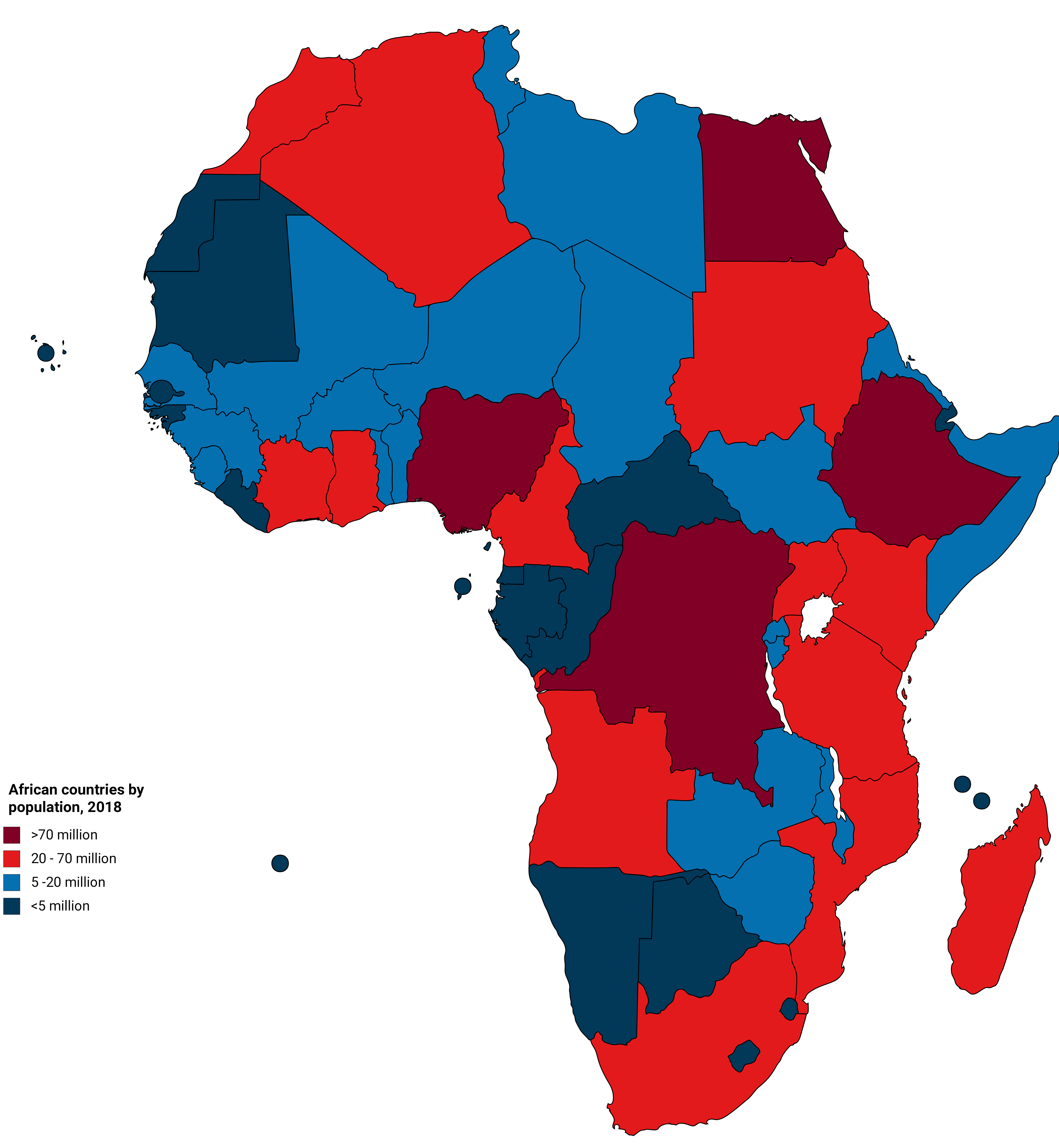 African countries by population, 2018